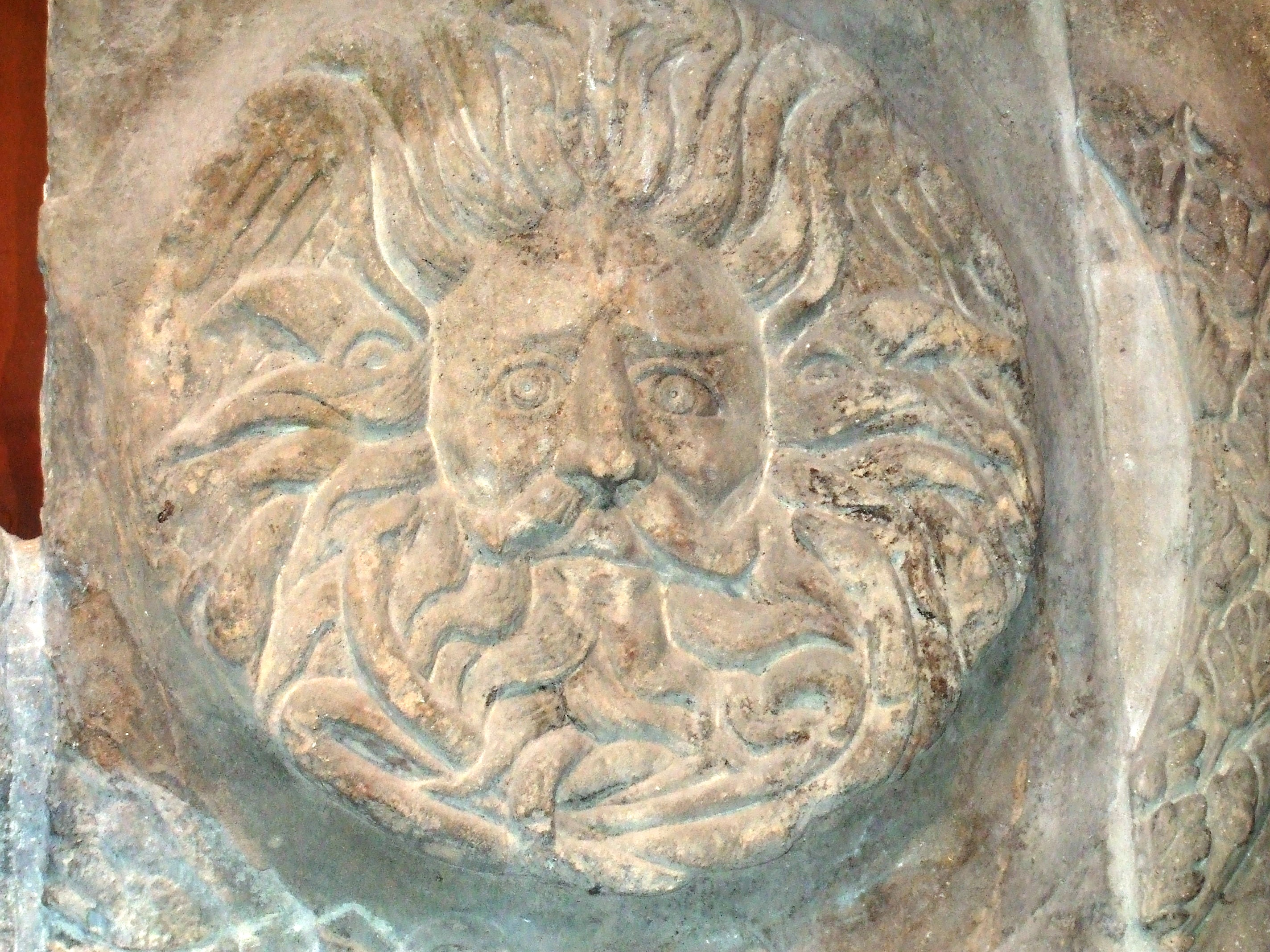 Gorgon Head Roman Baths, Bath